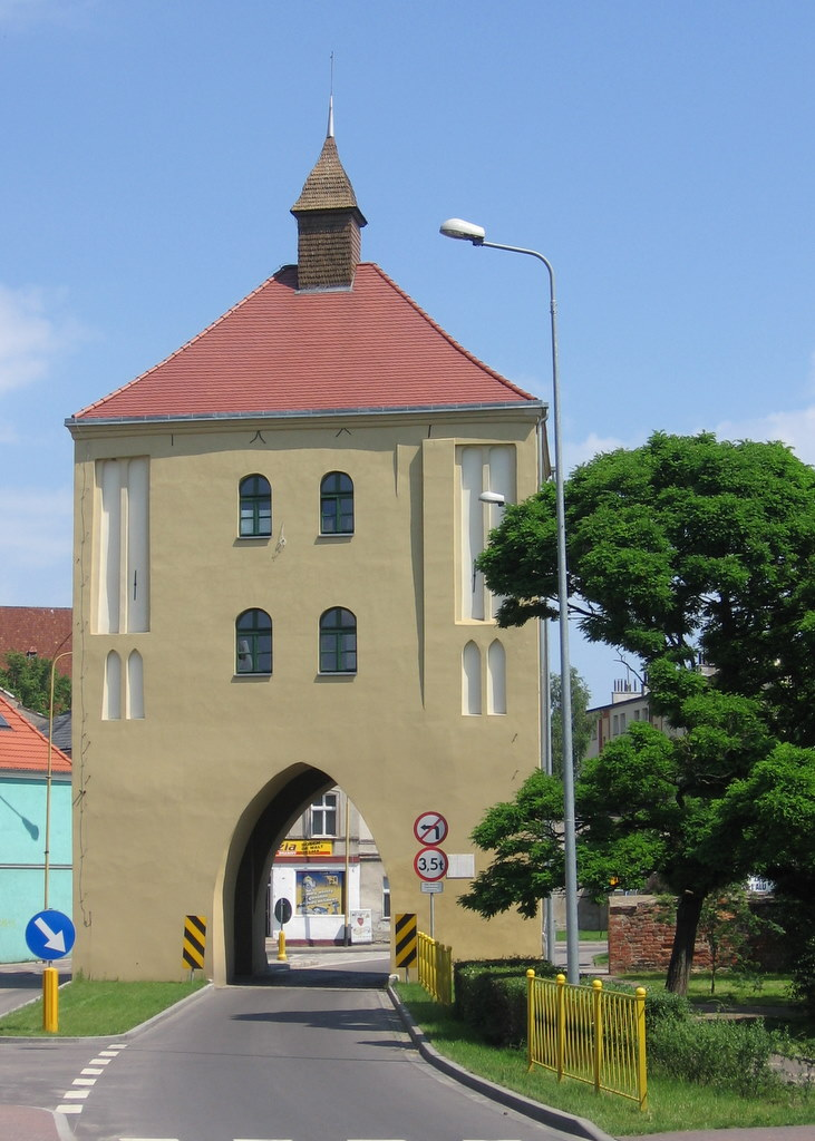 Wysoka Gate tower in south of Gryfice town, Poland